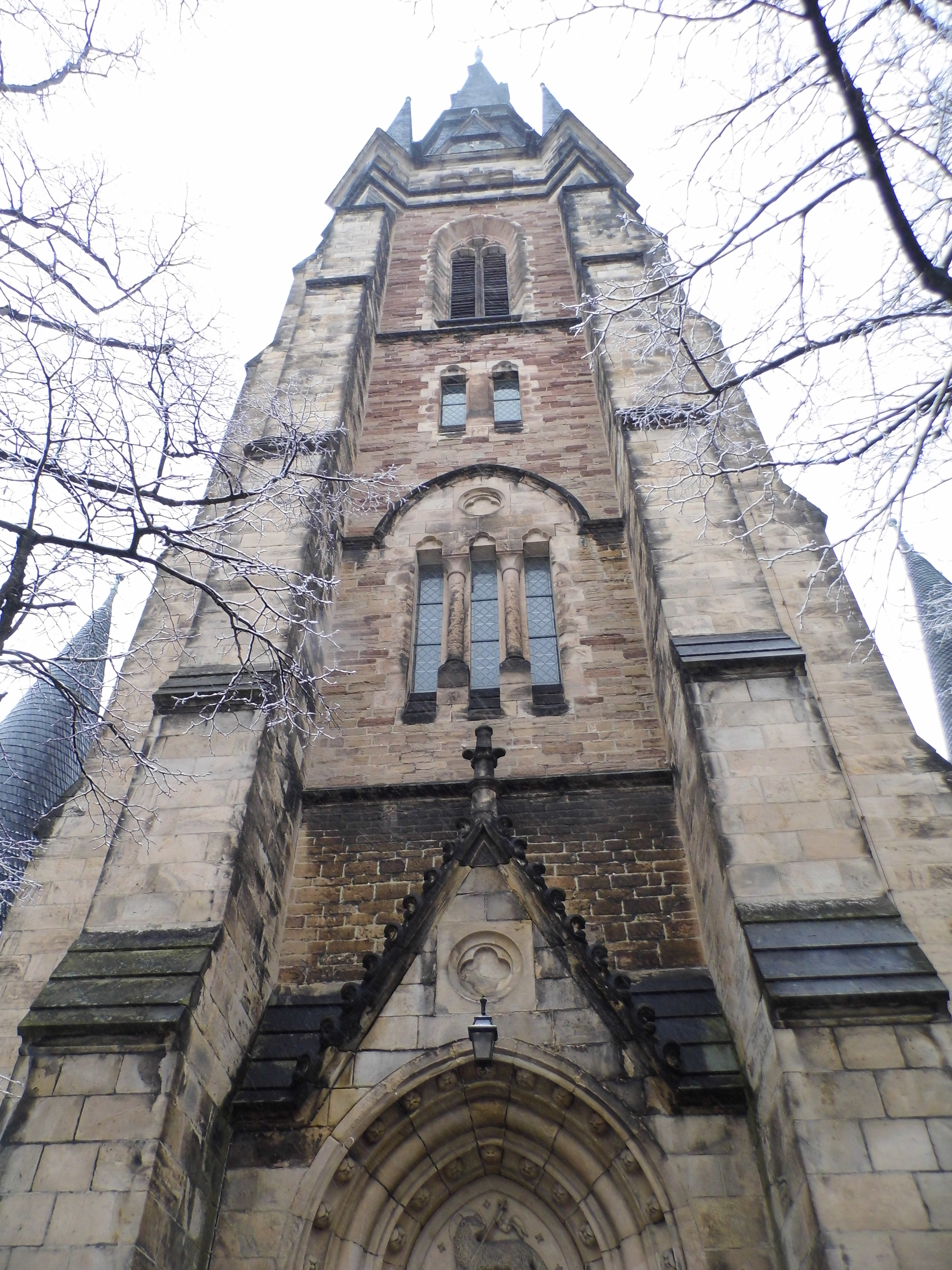 Der große Westturm mit dem heutigen Portal